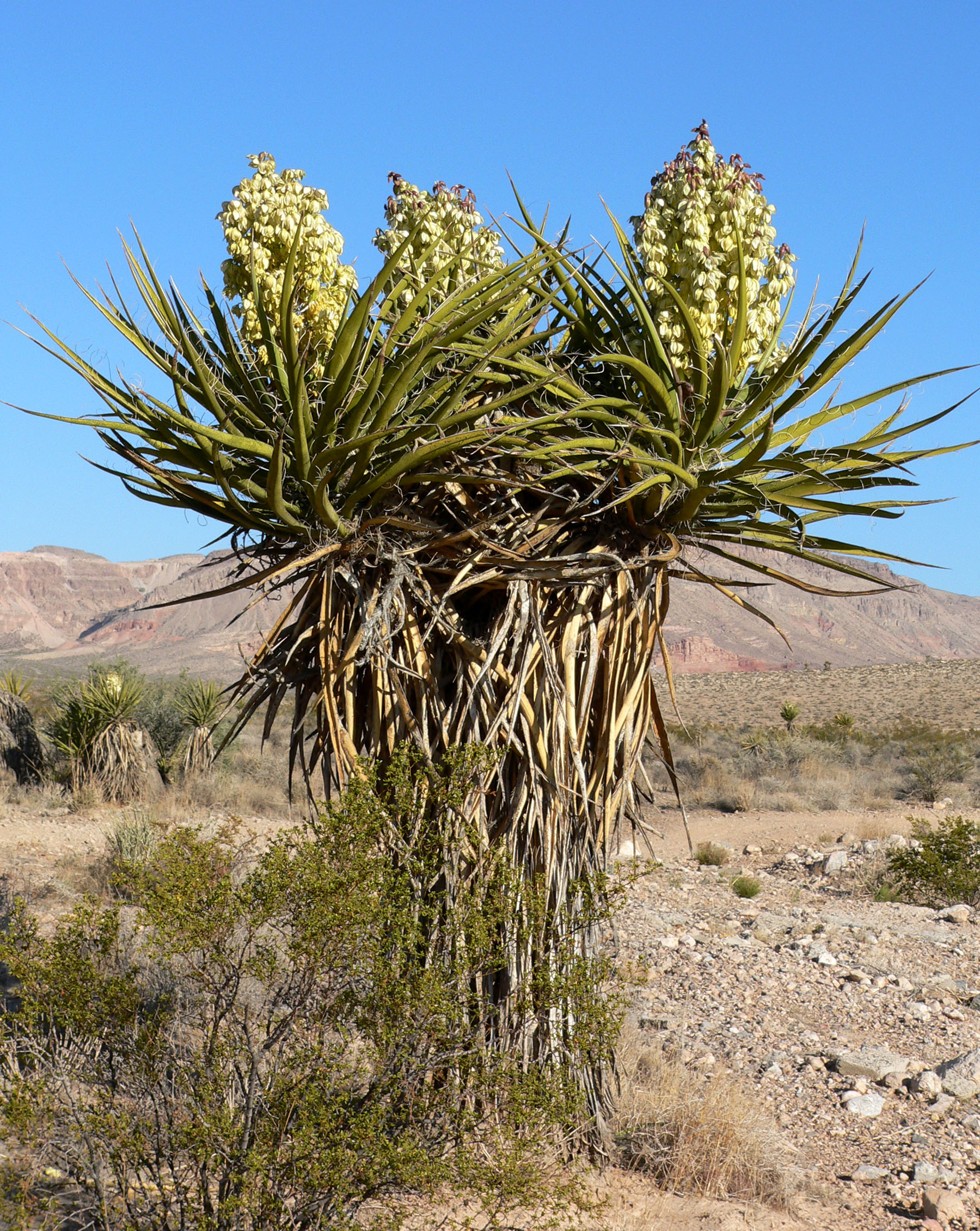 Yucca schidigera off Blue Diamond Road just east of Blue Diamond Hill, southern Nevada